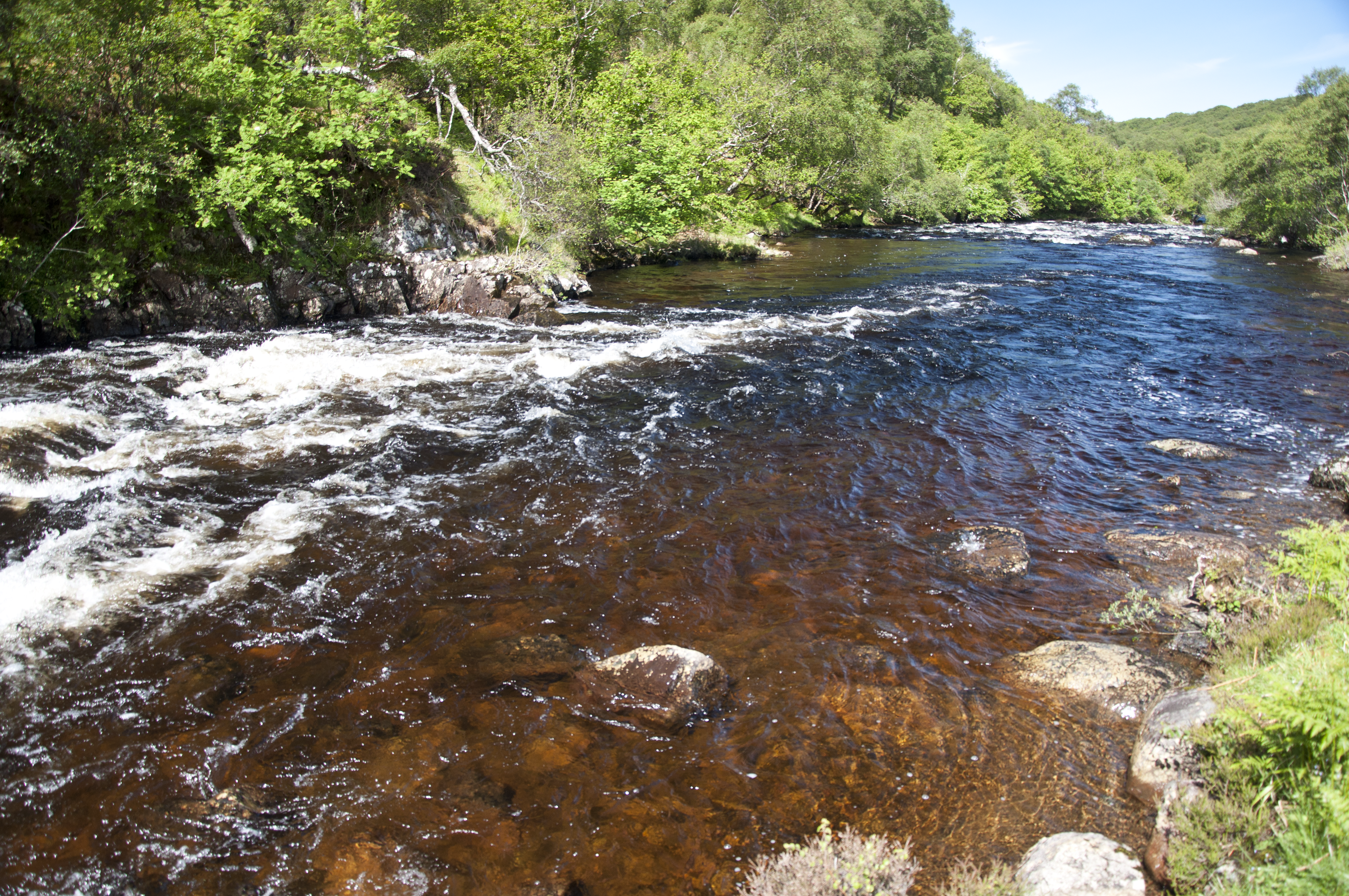 River Kirkaig, Scotland